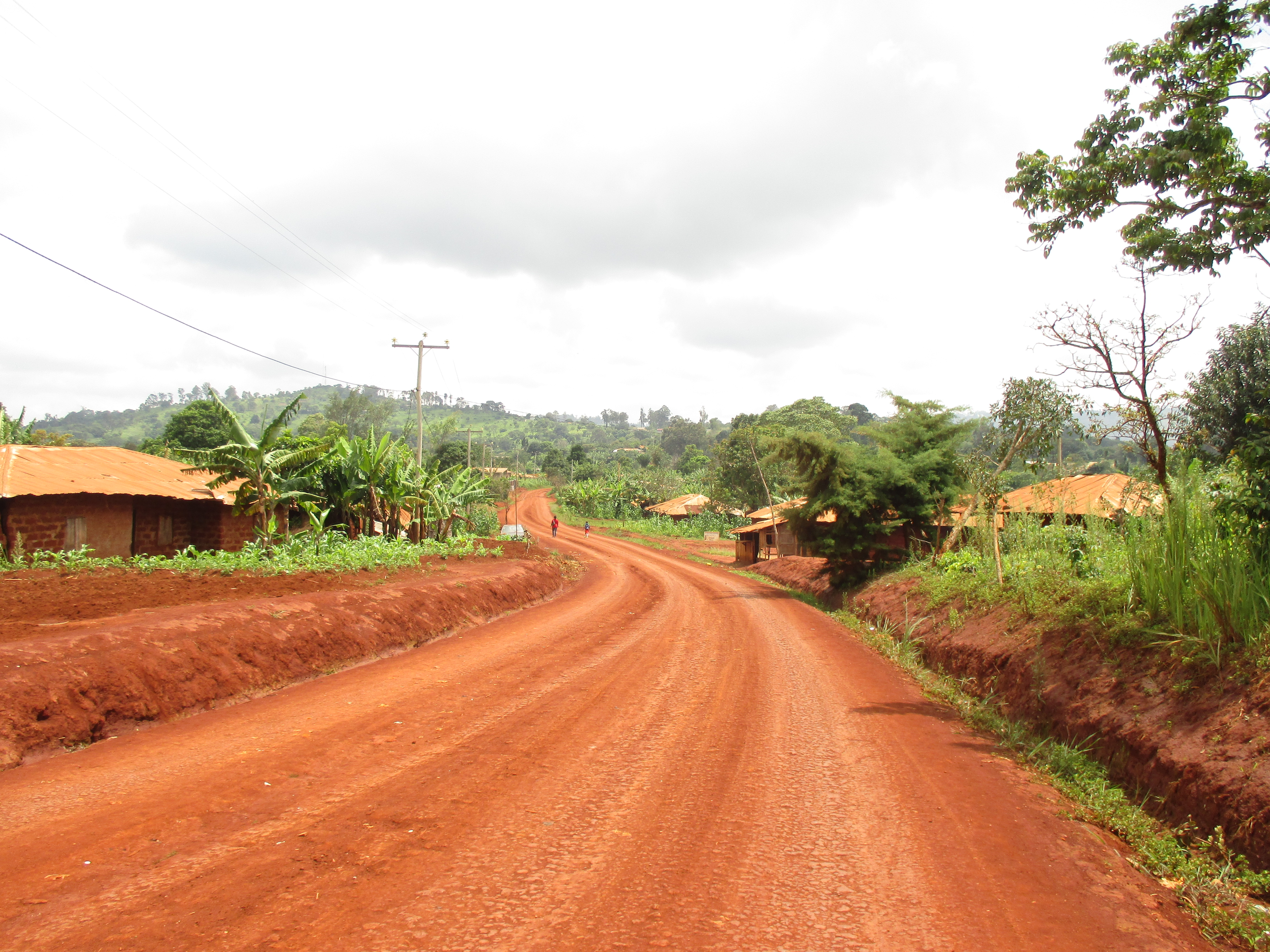 Regional Route crossing (D63) Bandrefam